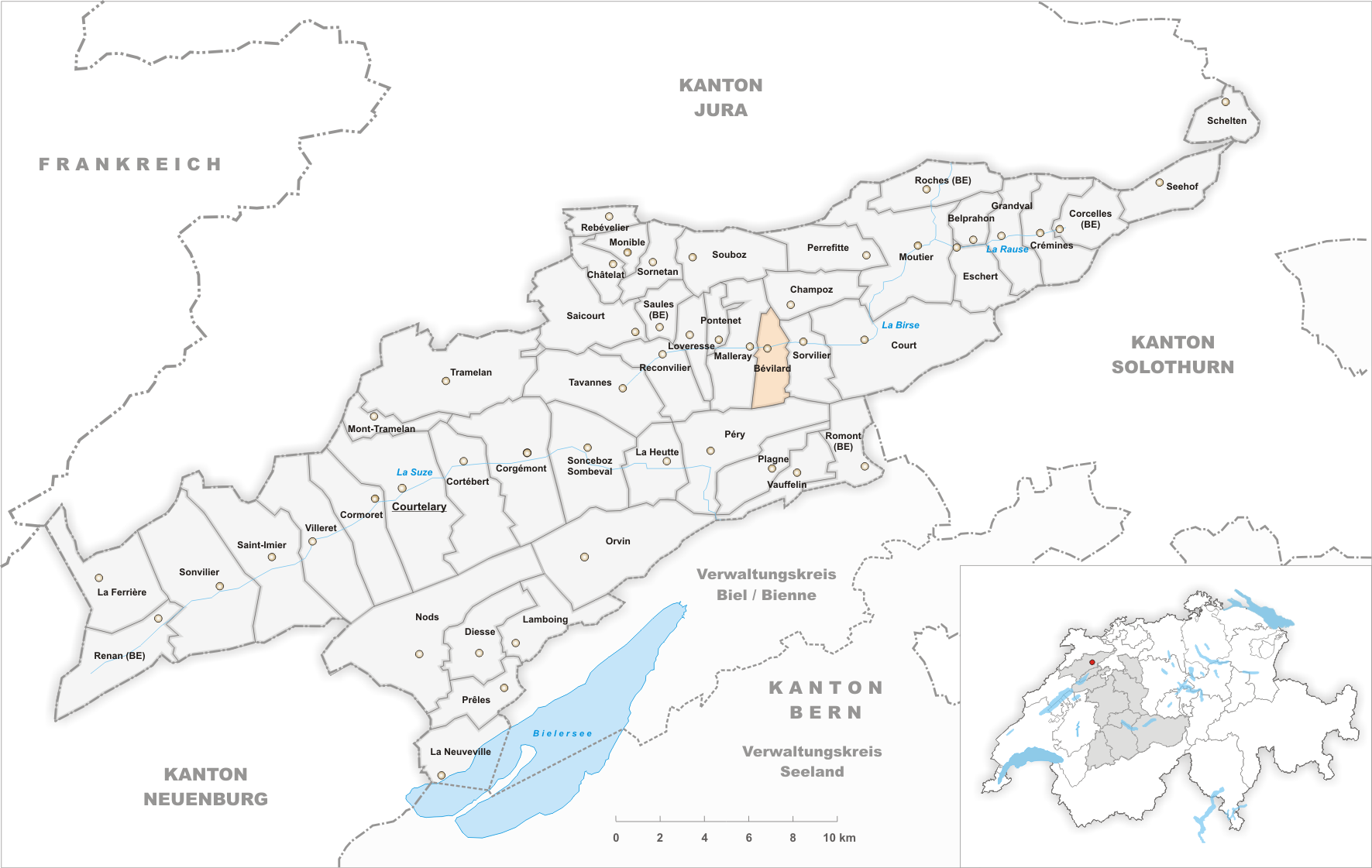 Municipality Bévilard